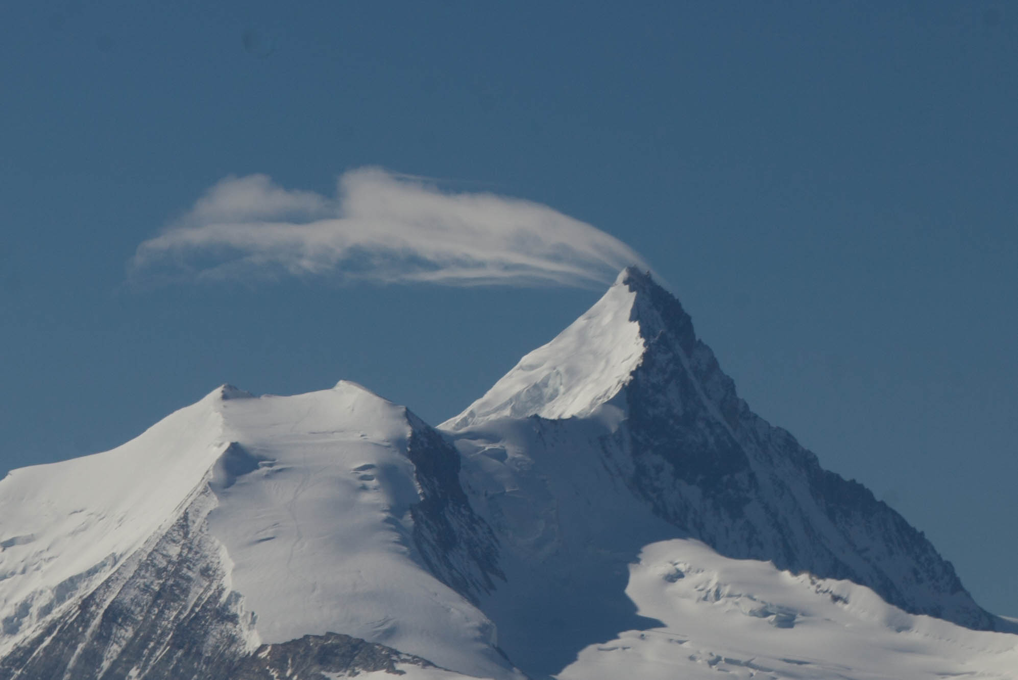 Weisshorn, Switzerland, creating a cloud again just like the wings of an airplane.